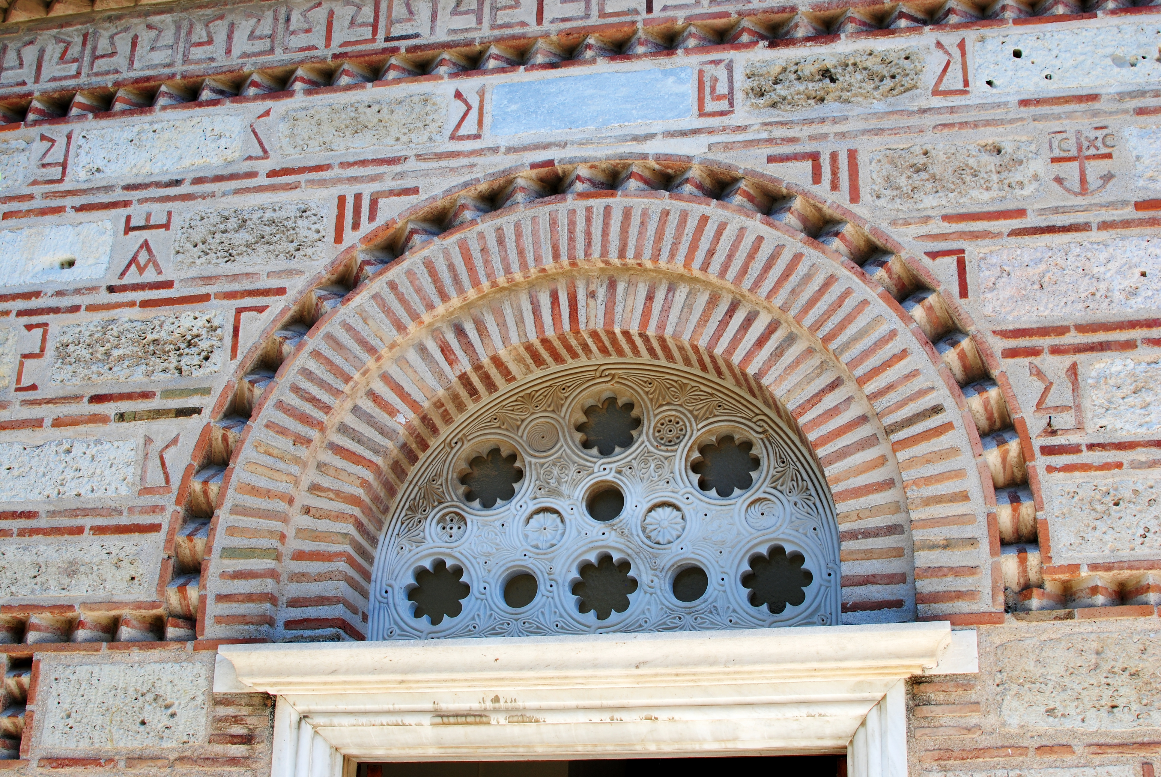 The Church of the Holy Apostles, also known as Agii Apostoli church in the Ancient Agora of Athens, June 2012.